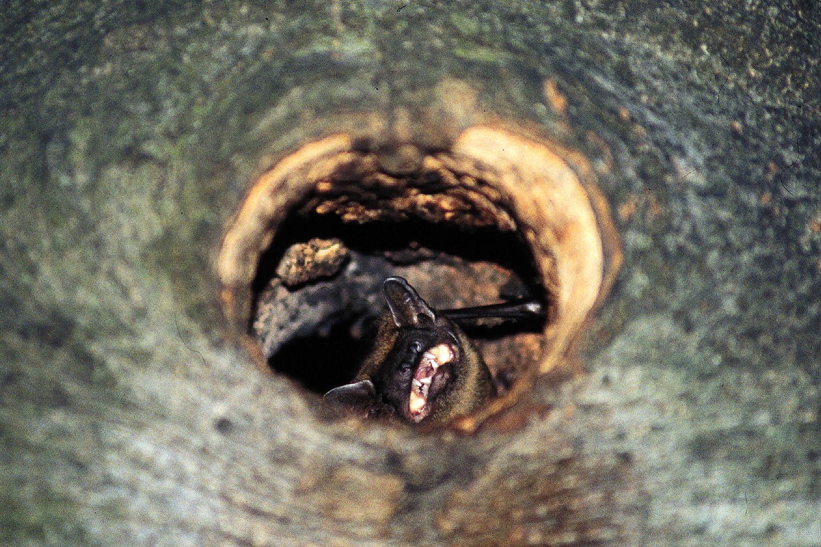 Male Common Noctule, Nyctalus noctula, calling females from the mating roost. Buccal glands are visible in its mouth.